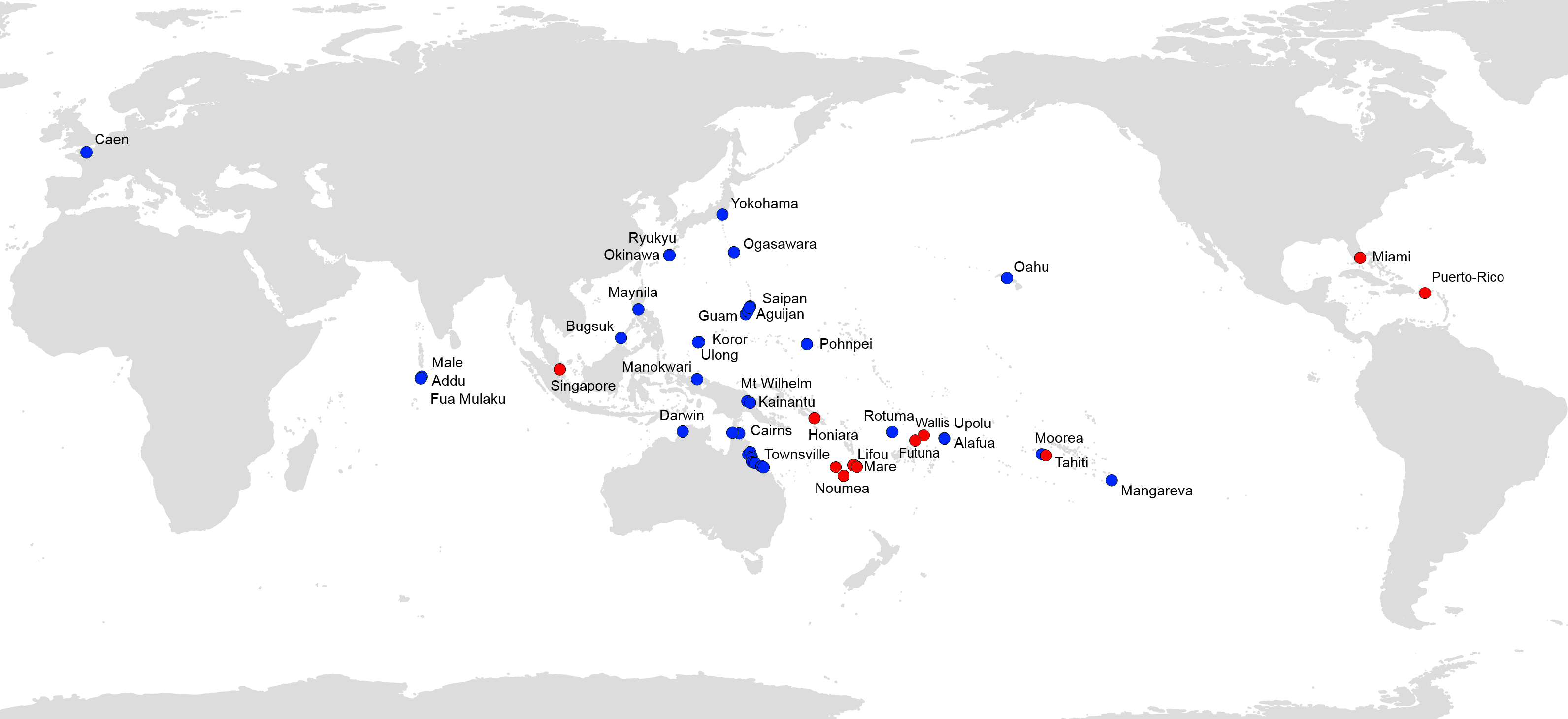 Figure 7 of paper. Platydemus manokwari, map of distribution records. Blue: previous records (Justine et al., 2014); Red: new records reported in this paper. DOI